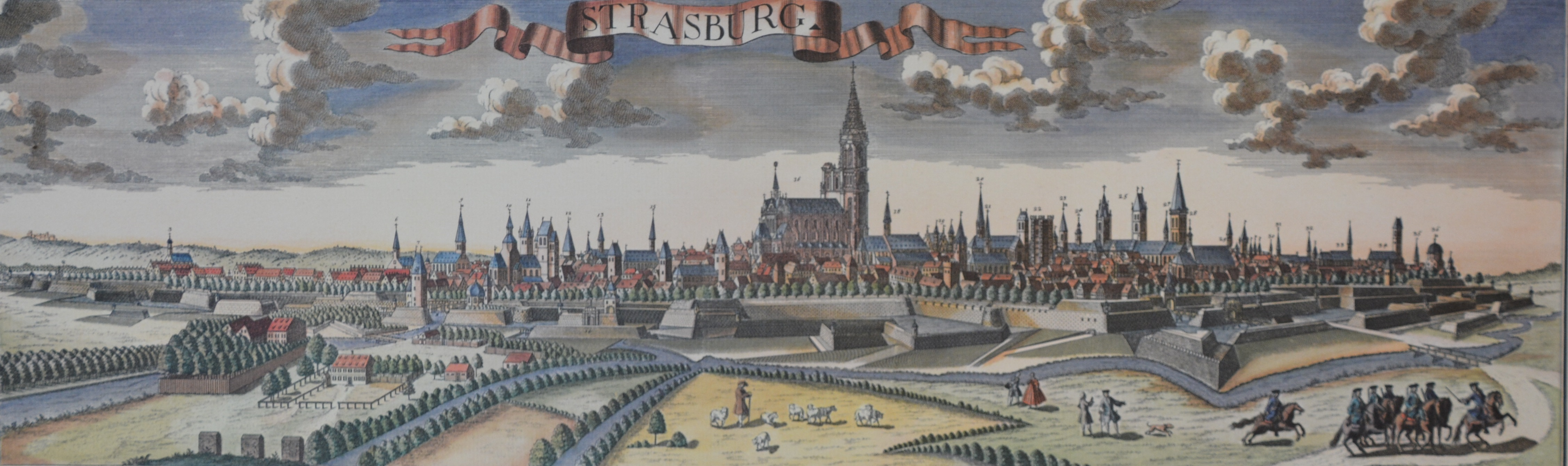 Strasbourg by Friedrich Bernhard Werner